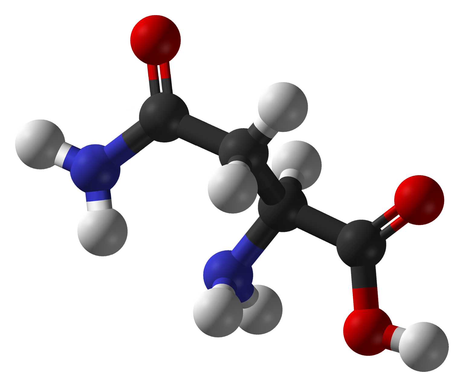 Ball and stick model of the asparagine molecule.